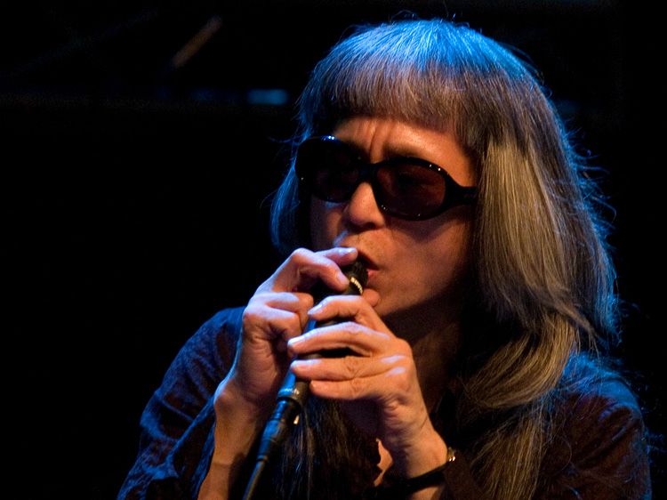 Keiji Haino at Moers Festival 2007